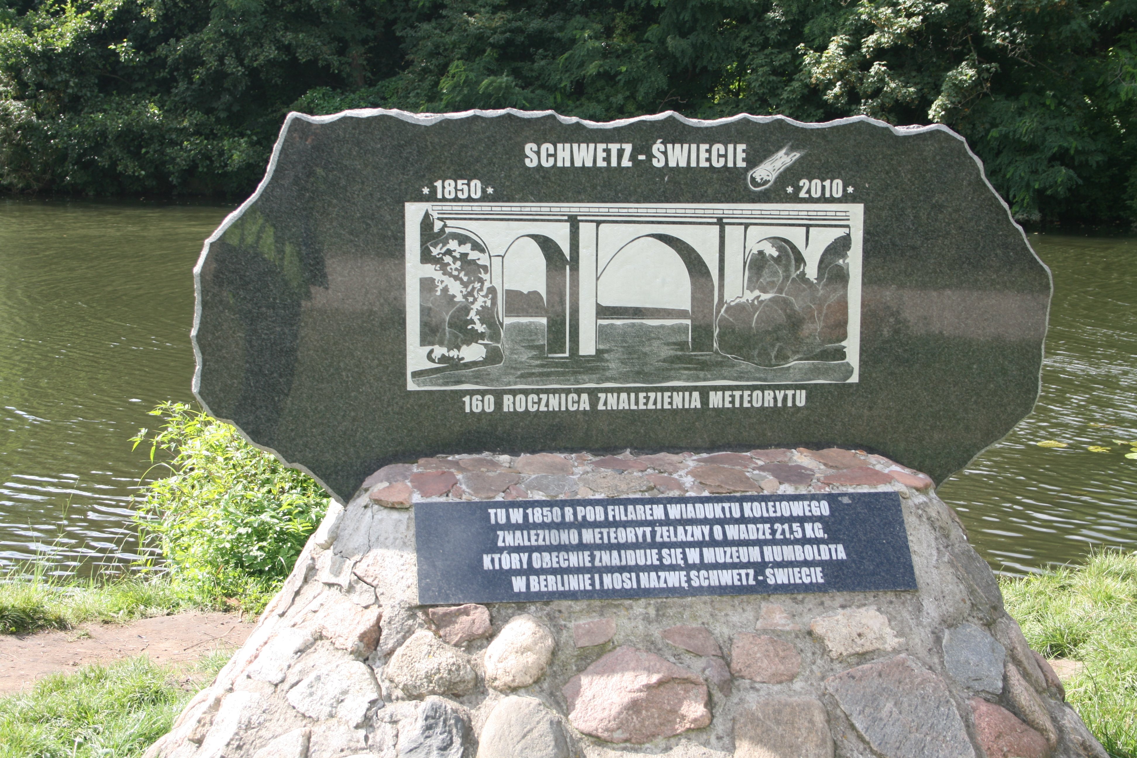 Monument erected in 160th anniversary of founding of Schwetz (Świecie) meteorite near the founding site.